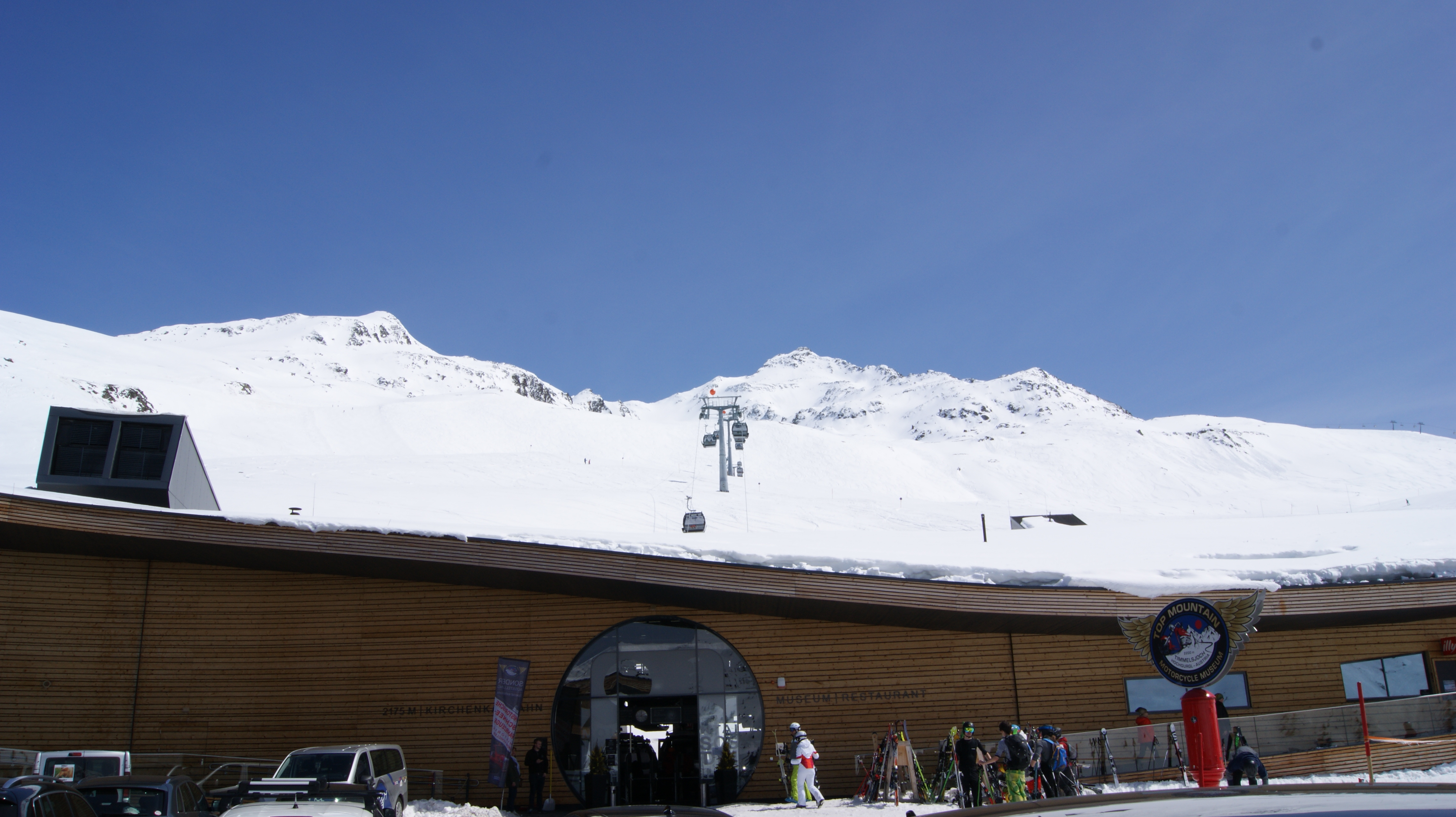 10-person gondola lift at Kirchenkar, next to the Top Mountain Motorcycle Museum in the Oetztal, Timmelsjoch.